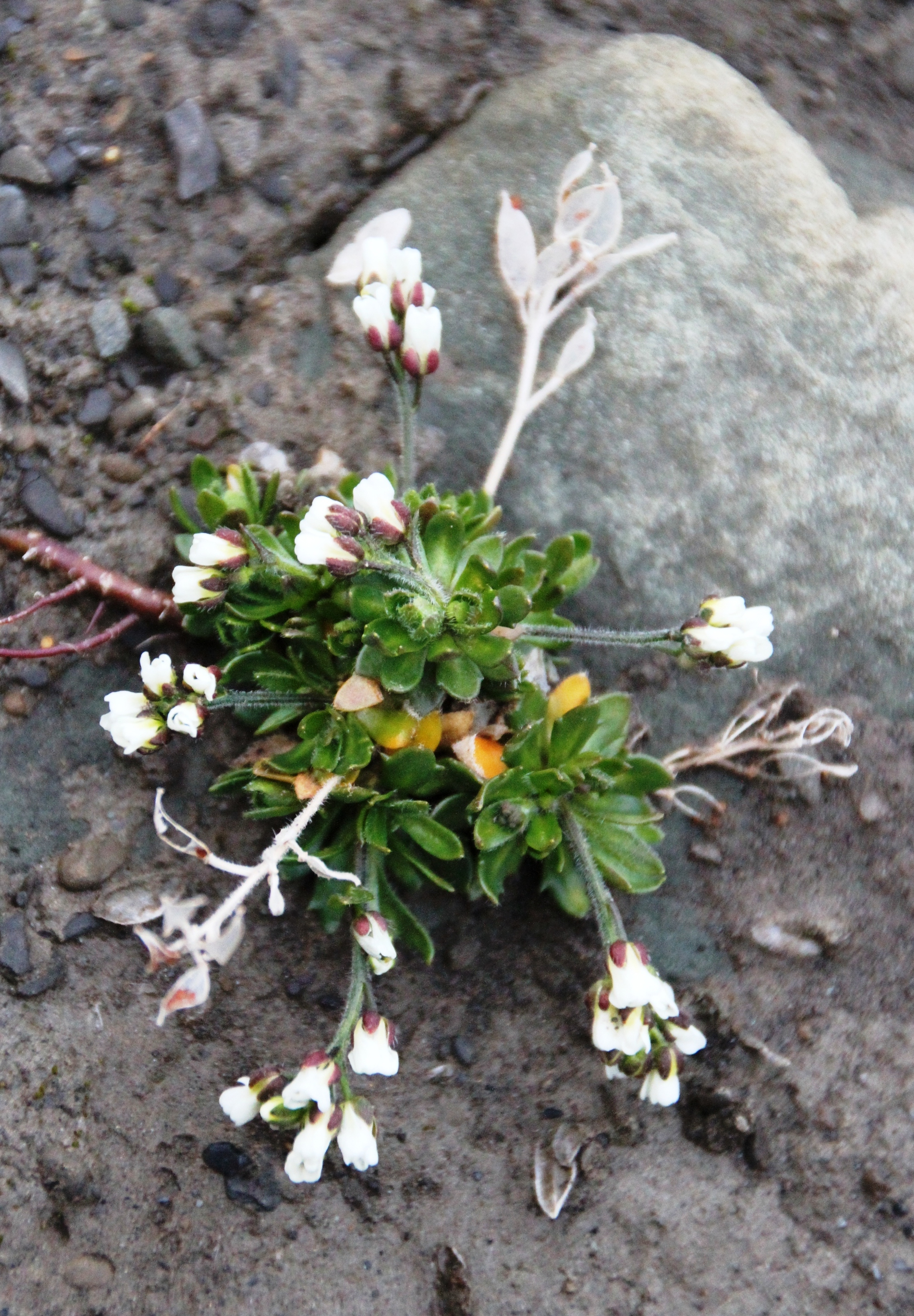 Photo of plant nearby Longyearbyen, Spitsbergen (Norway)